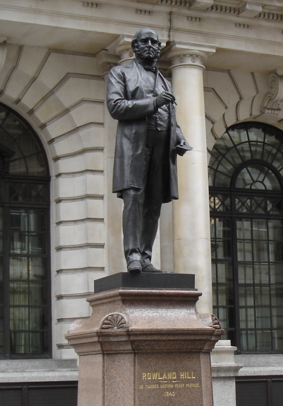 Statue Of Rowland Hill-King Edward Street-London